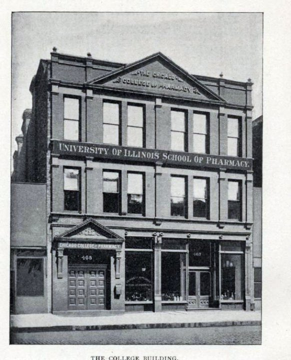 Building which housed the Chicago College of Pharmacy, now the University of Illinois at Chicago College of Pharmacy, in the late 19th century.